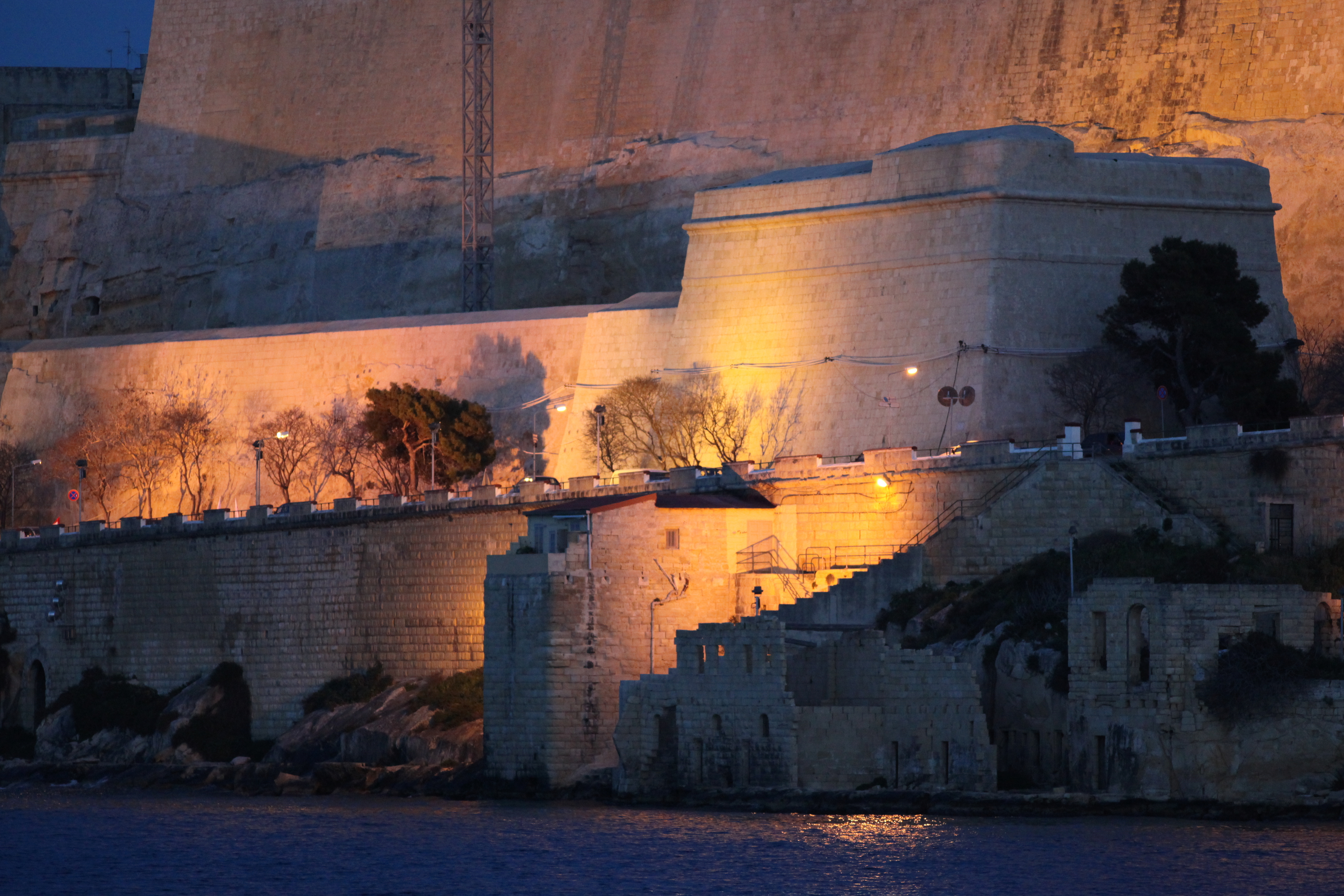 View from Ix-Xatt Ta' Xbiex in Ta' Xbiex to the San Salvatore Bastion at Xatt it-Tiben in Floriana, Malta